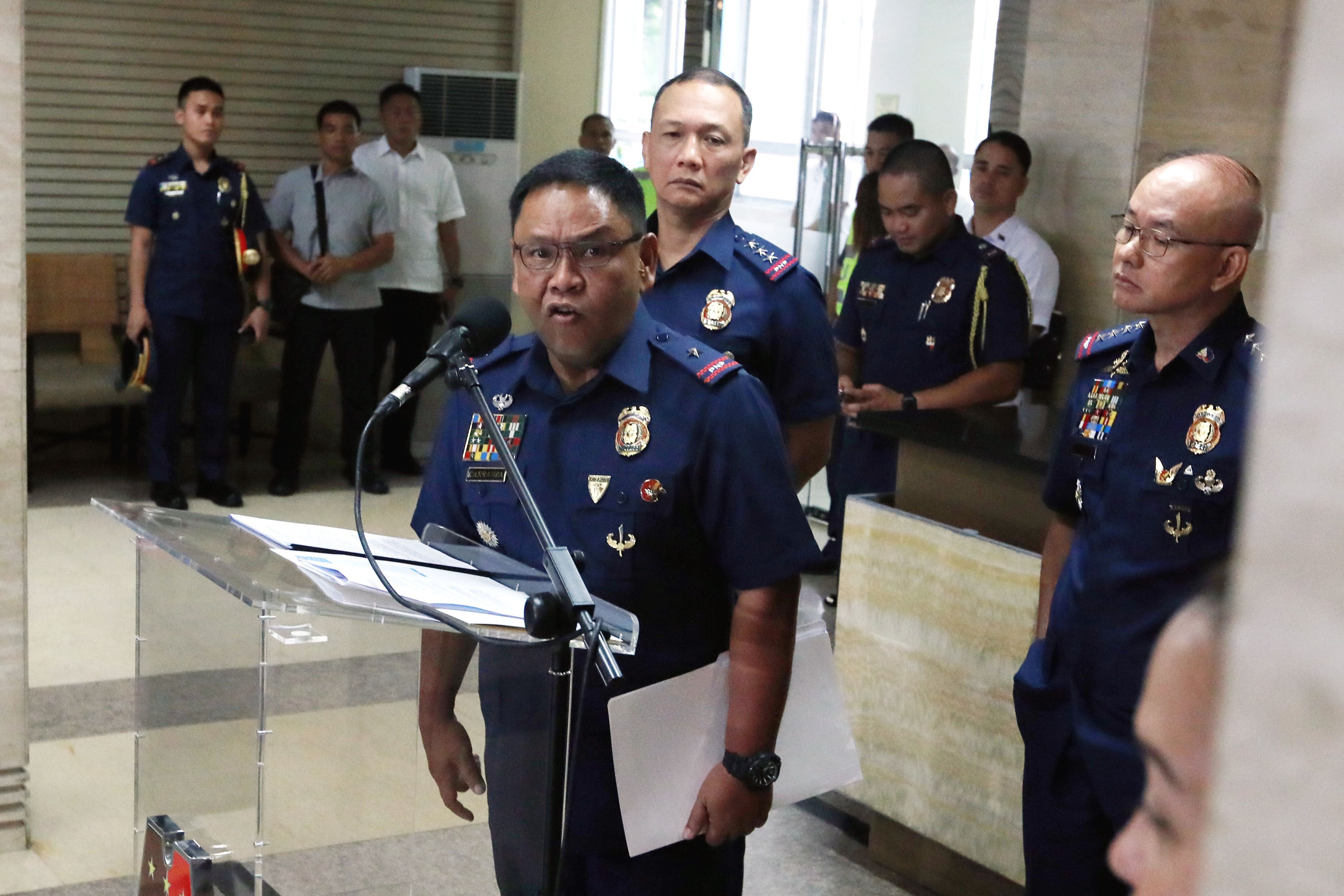 Philippine National Police (PNP) PRO4-A acting Regional Director Police Chief Supt. Edward Carranza (on rostrum) revealed during a press conference held at Camp Crame in Quezon City on Monday (July 9, 2018) that slain Tanauan City, Batangas mayor Antonio Halili's own men, and not policemen, were in charge of his close-in security when he was shot. (PNA photo by Joey O. Razon)